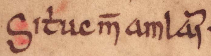 An excerpt from folio 43v of Oxford Bodleian Library MS Rawlinson B 489 (the Annals of Ulster). The excerpt concerns Sitriuc mac Amlaíb (died 1073).